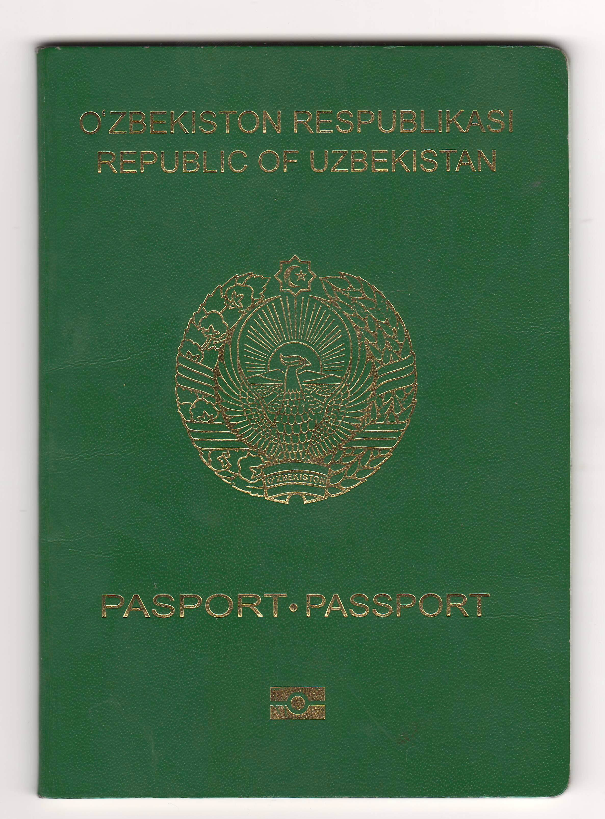 Passport of citizen of Uzbekistan. Cover